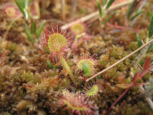 Drosera rotundifolia L./ Round Leaved Sundew. Fotographed at Holmegaardsmosen in Næstved.